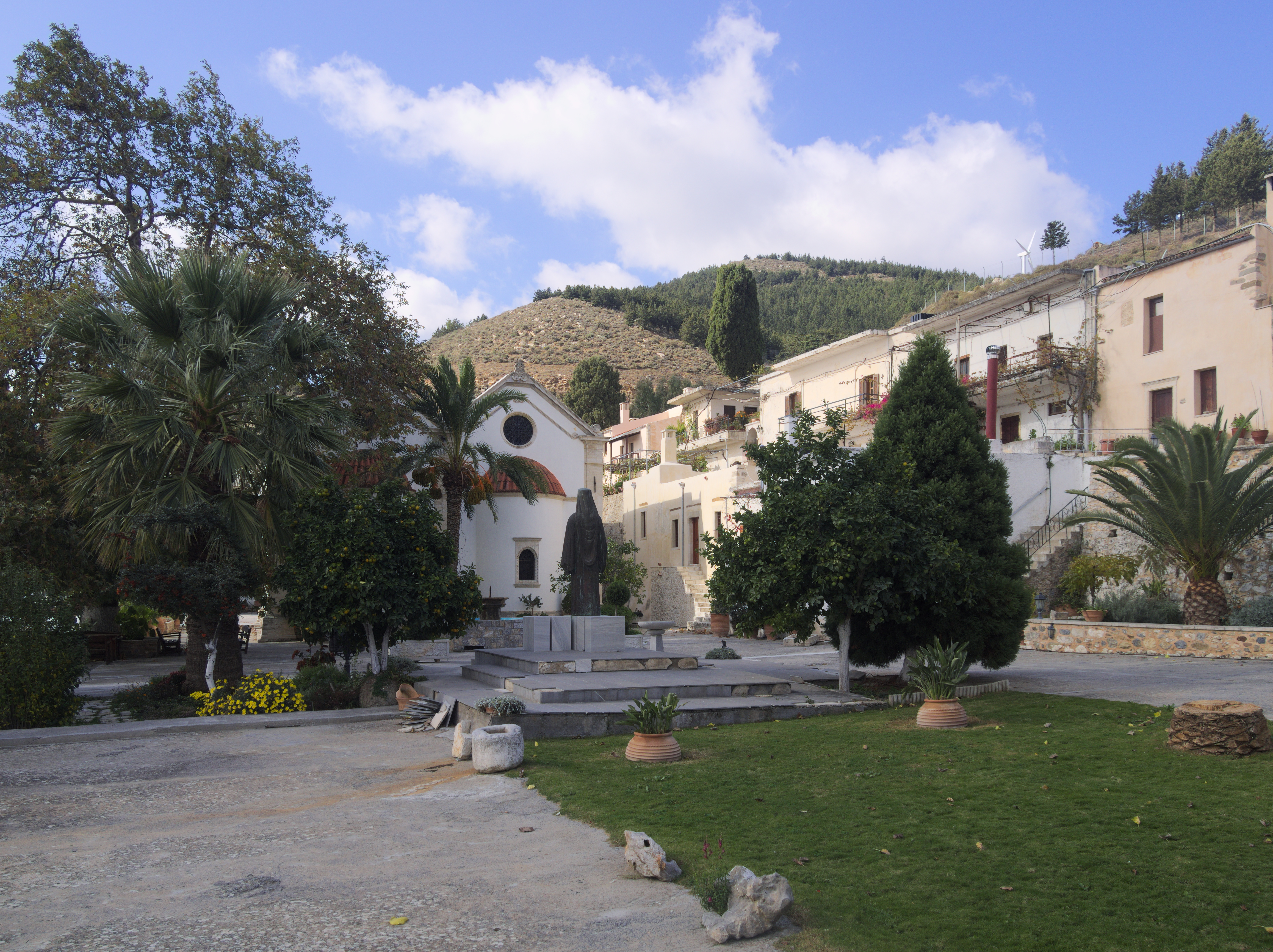 Inside Epanosifi monastery.